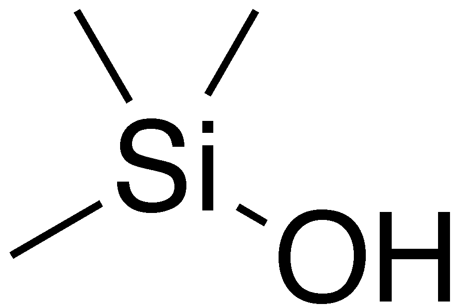 chemical structure of trimethylsilanol